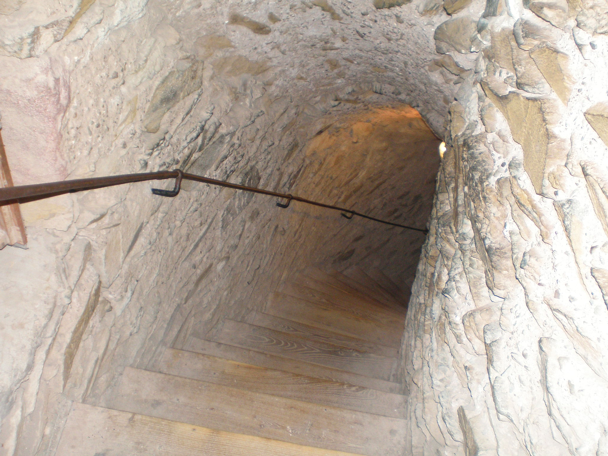 Bolków Castle